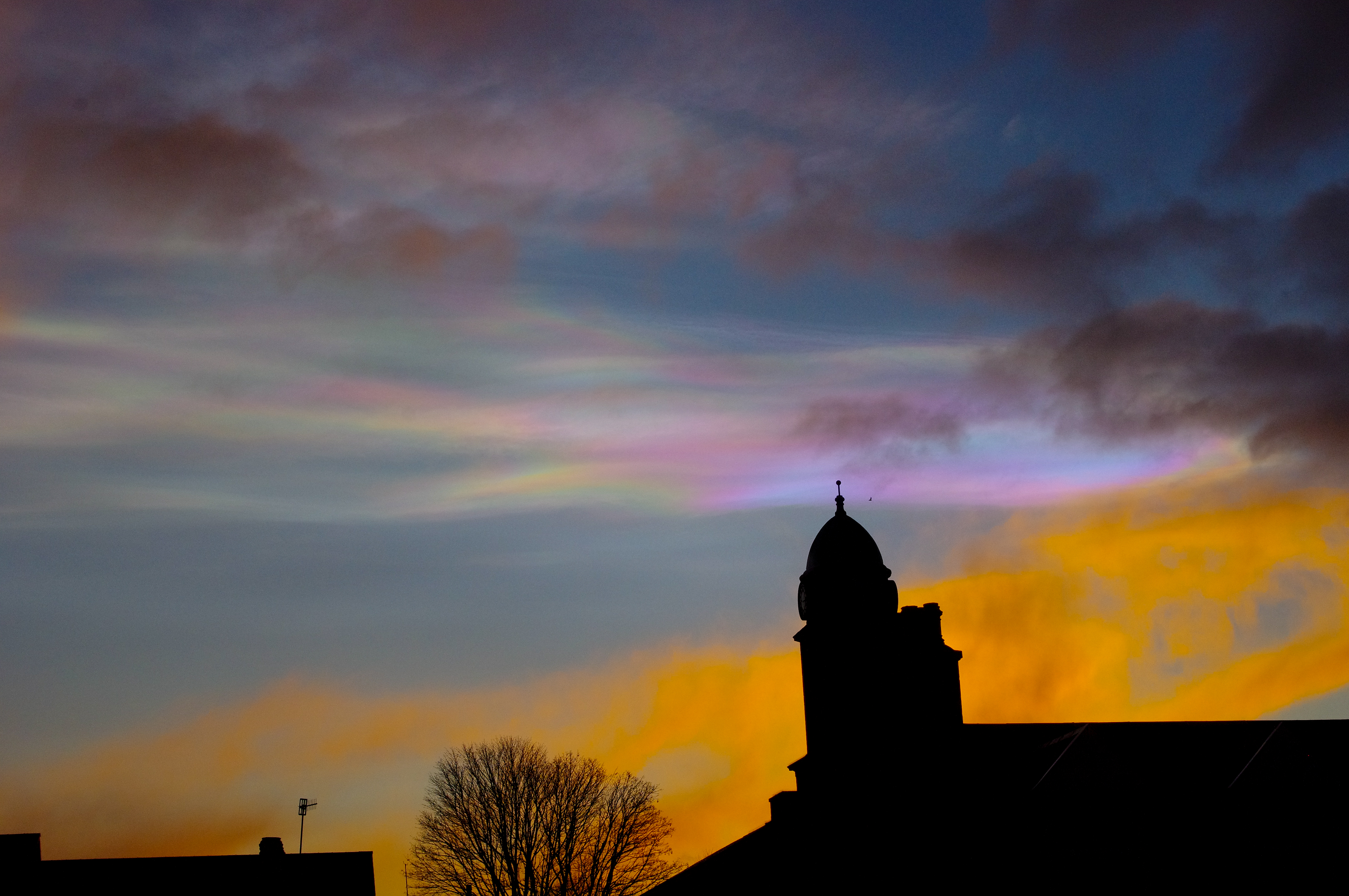 A full iridescent cloud during sunset in Aberdeen, Scotland. This rare phenomenon occurs when little drops of water or ice diffract sunlight, coloring parts of or entire cloud into multiple colors.